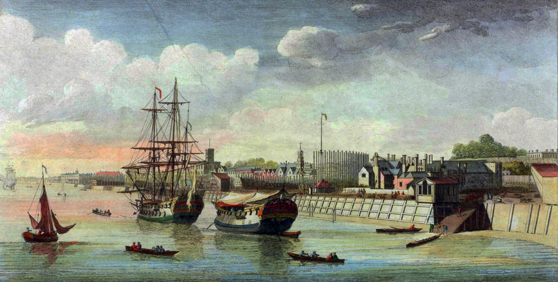 View of river Thames in Woolwich and Woolwich Dockyard. Engraving by John Boydell (1750). Collection of the London Metropolitan Archives.